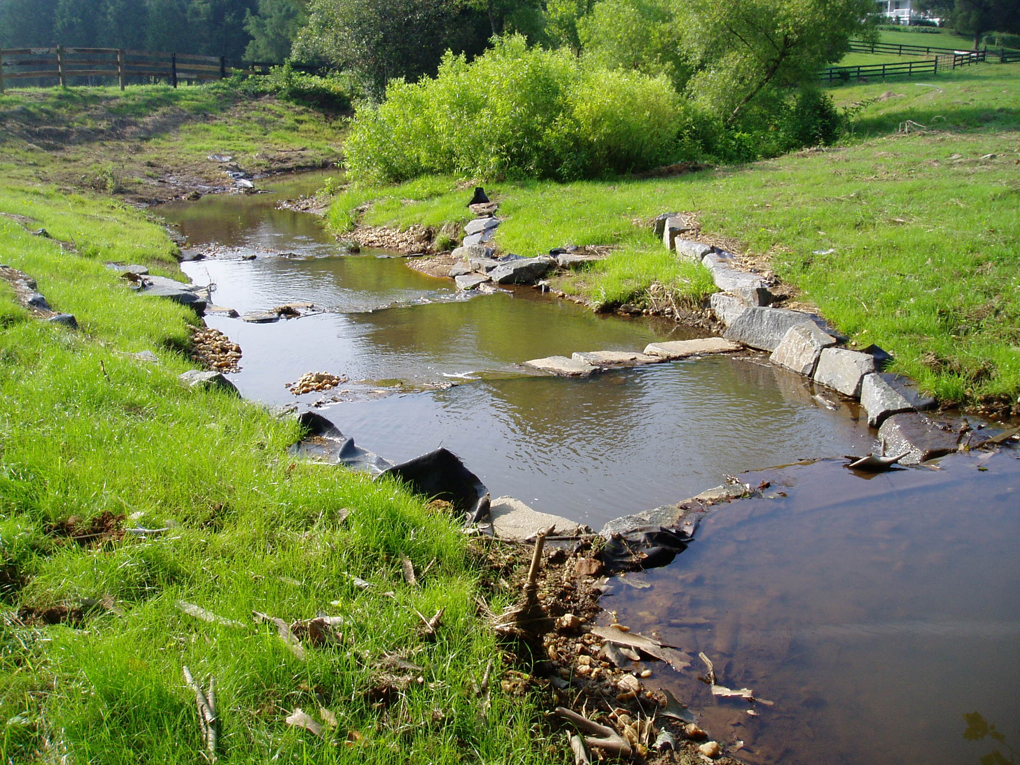 This structure was installed as part of the Beaver Run stream restoration project for grade-control.